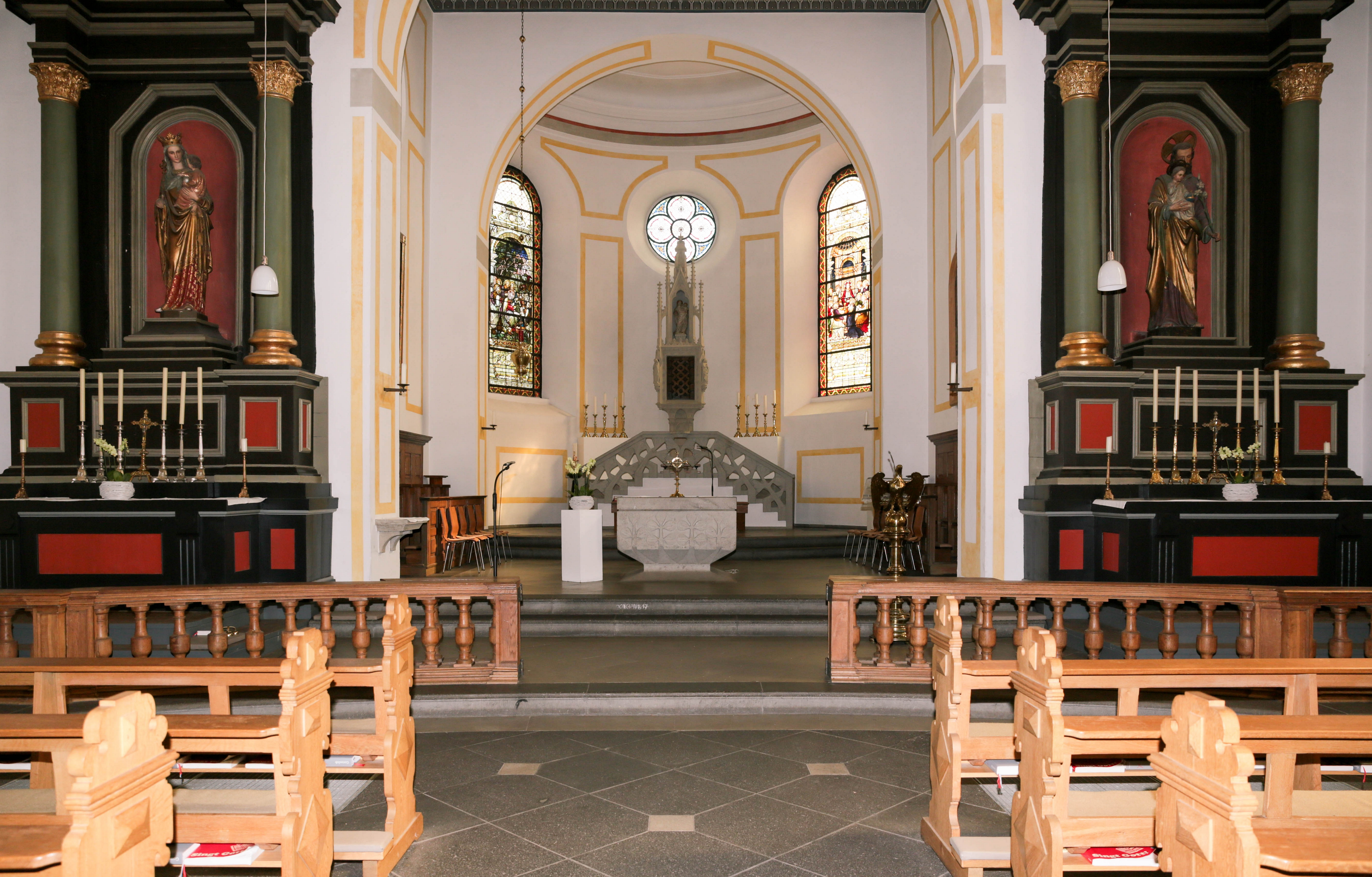 Sechtem (Bornheim), inside St. Gervasius and St. Protasius church